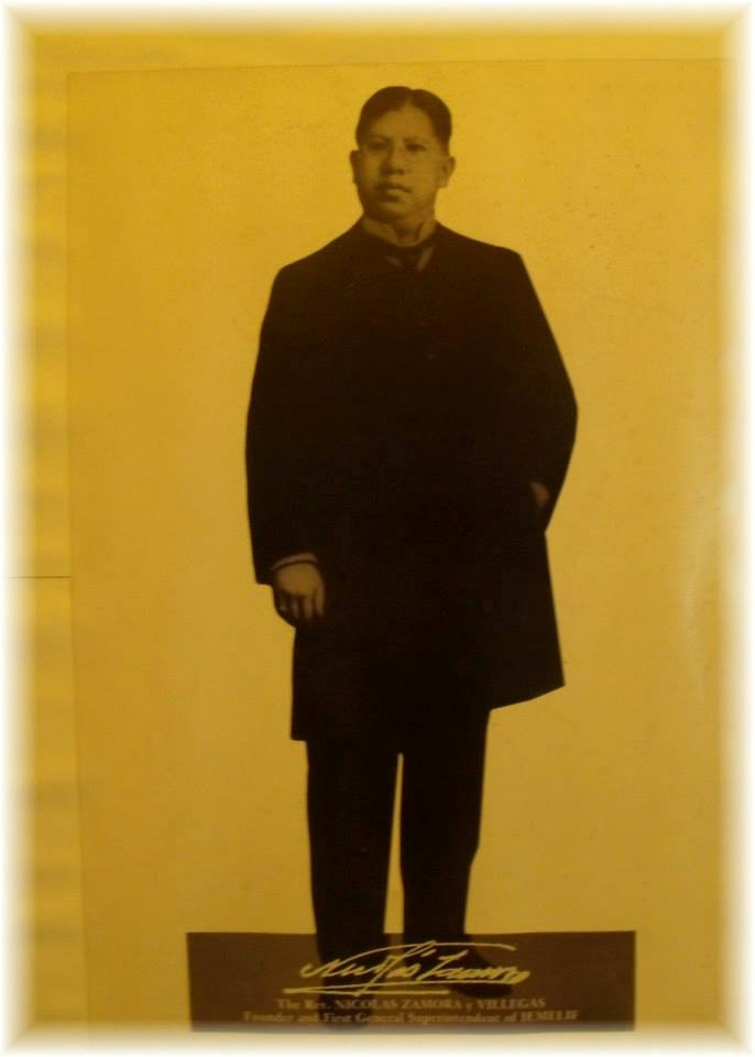 Founder and First General Superintendent of IEMELIF.